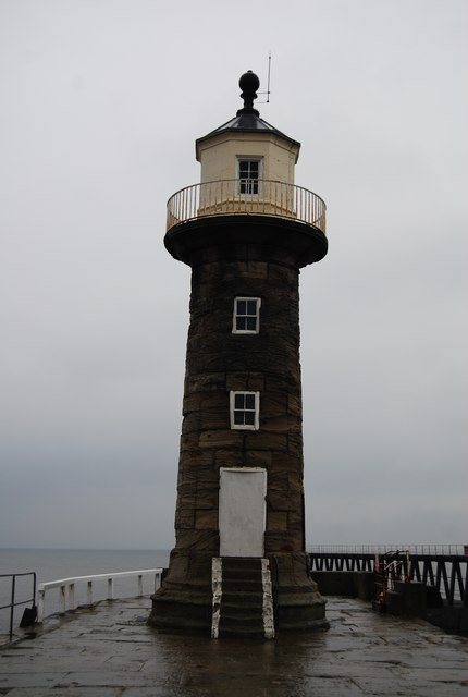 Lighthouse, end of east pier, Whitby